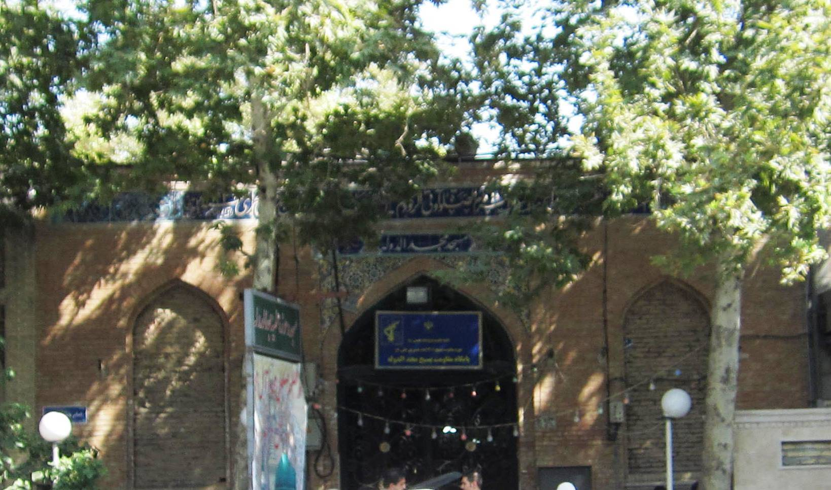 Majd al-Dawla mosque (built in Qajar era), in Imam Khomeyni street in Tehran.